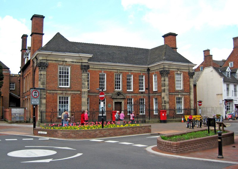 Chetwynd House, Greengate Street, near to Stafford, Staffordshire, Great Britain. Built in 1746 as a private house. It was used as Stafford's main post office from 1914 to 2008. According to the Staffordshire Newsletter, in March 2010, it is proposed that the building undergo a �3 million transformation into a restaurant, bar, conference and wedding venue. However this is subject to planning permission being obtained.